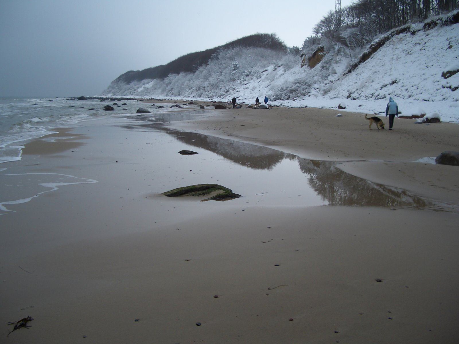 Beach on the Peninsula Wittow (Rügen), Germany.